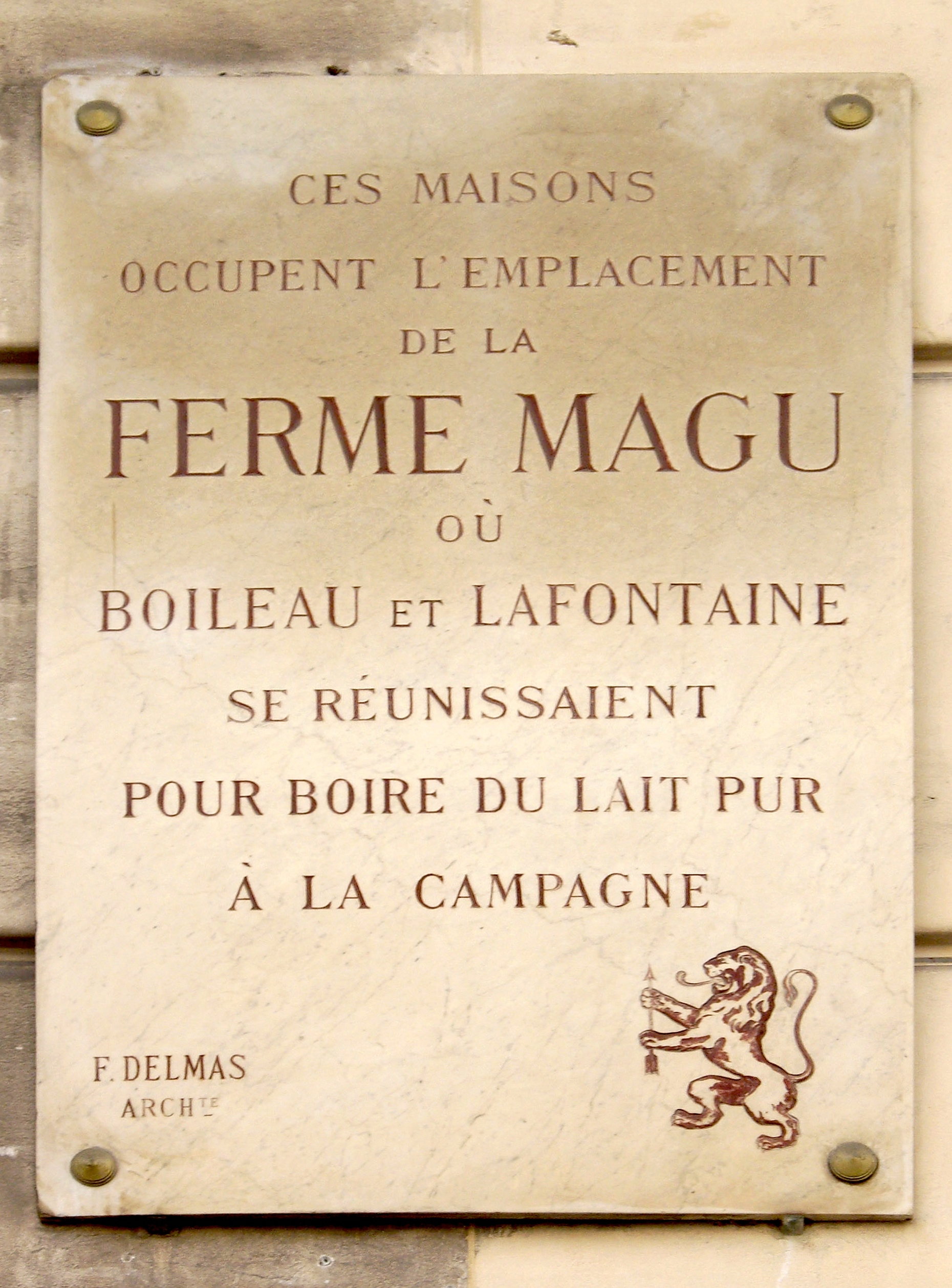 Commemorative plaque, 9 place de Mexico, Paris 16th. Translation: "These houses stand on the location of the Magu Farm where Boileau and La Fontaine used to get together to drink fresh milk in the countryside."